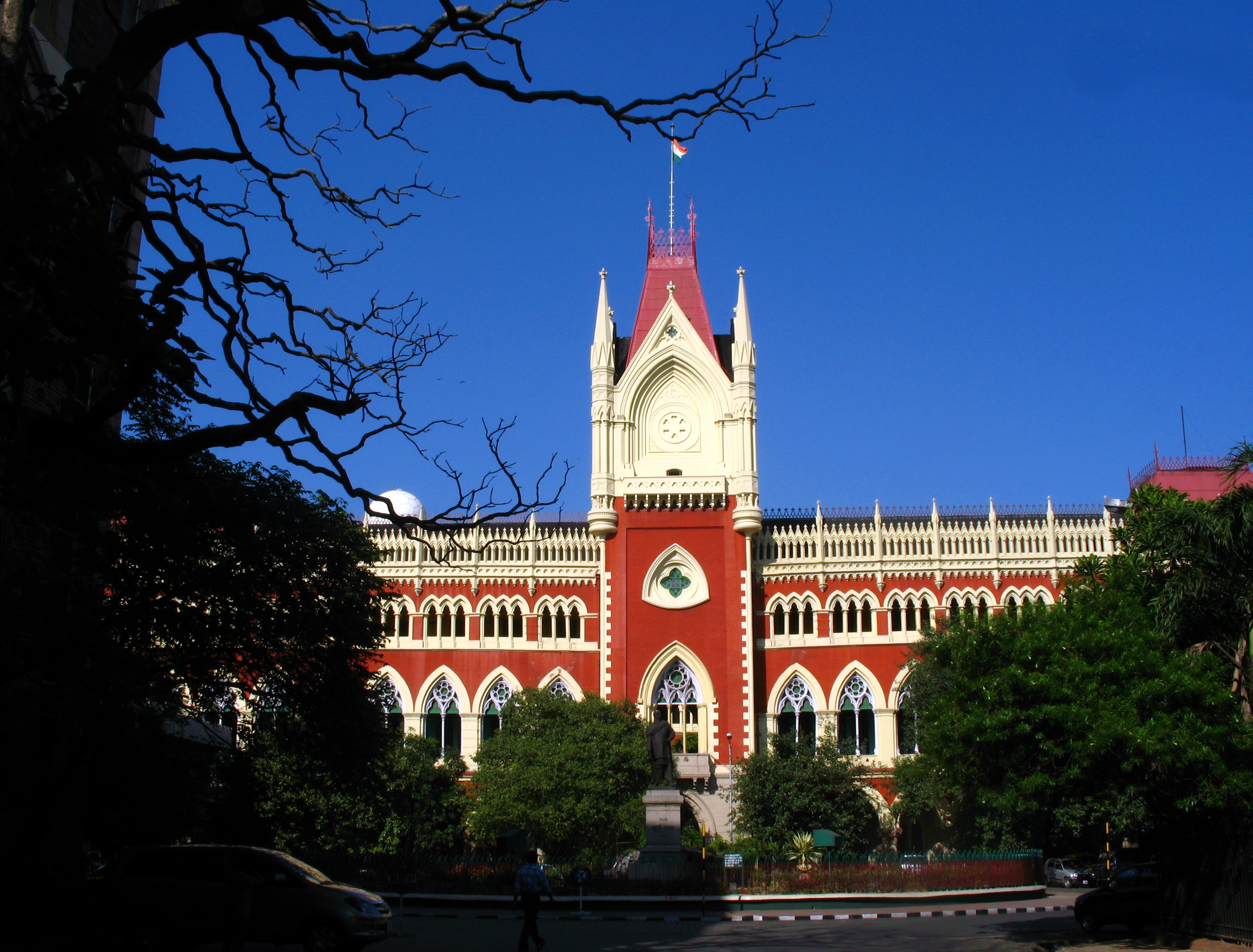 Formally established in 1862, the Calcutta High Court was then known as High Court of Judicature at Fort William. The first High court to be set up in India, Calcutta High Court is one of the three Chartered High Courts to be set up in India, along with the High Courts of Bombay, Madras.Calcutta High Court